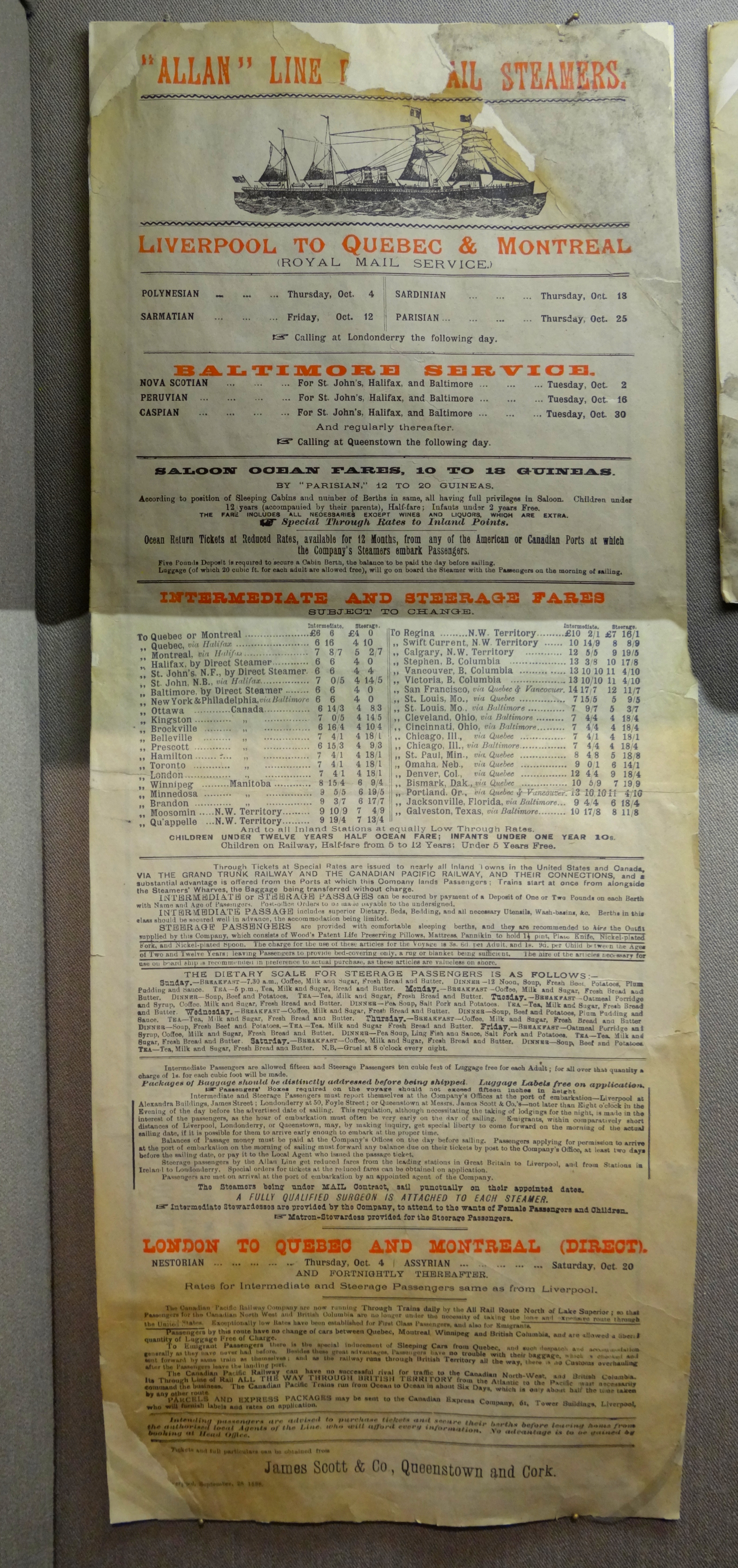 Details about fares and schedules for the Allan Line Royal Mail Steamers, probably from sometime in the 1890s. Photographed at the Heritage Centre in Cobh, Ireland, the last port of call before the westbound ships headed for America. On the Liverpool - Quebec run, the ships used were the Polynesian, the Sarmatian, the Sardinian and the Parisian. On the Baltimore service, the ships used were the Nova Scotian, the Peruvian and the Caspian.